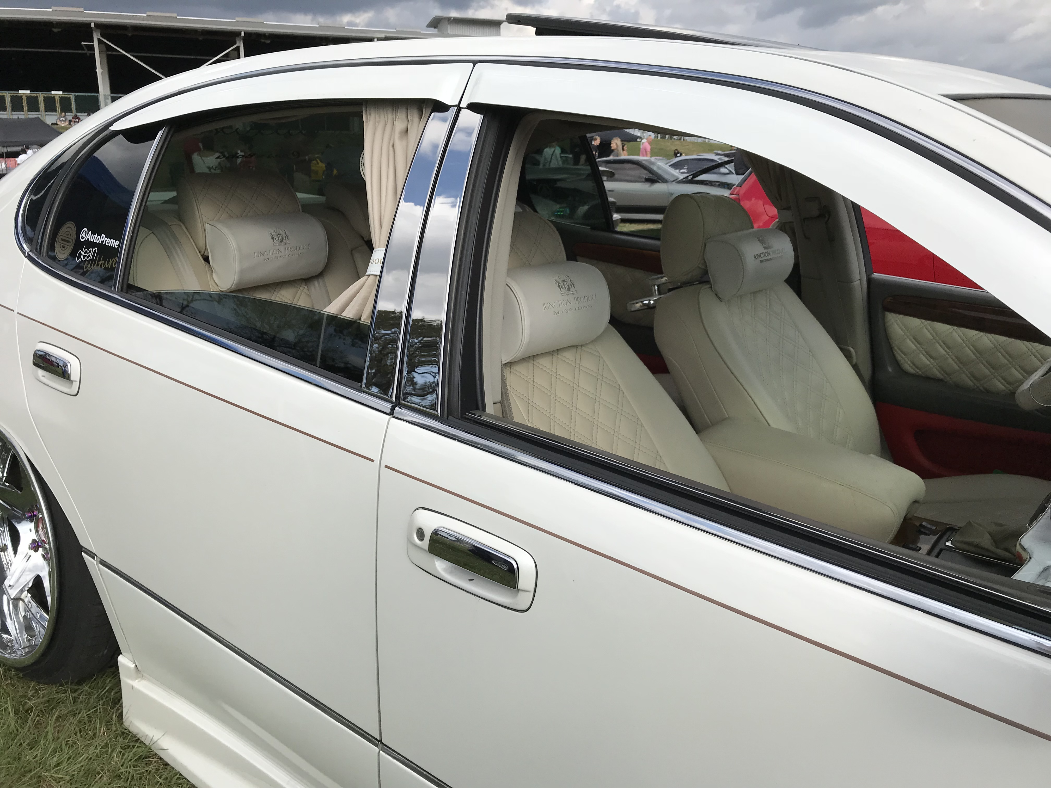 VIP style Lexus GS interior including common VIP mods such as diamond pattern seats, seat pillows and rear window curtains.